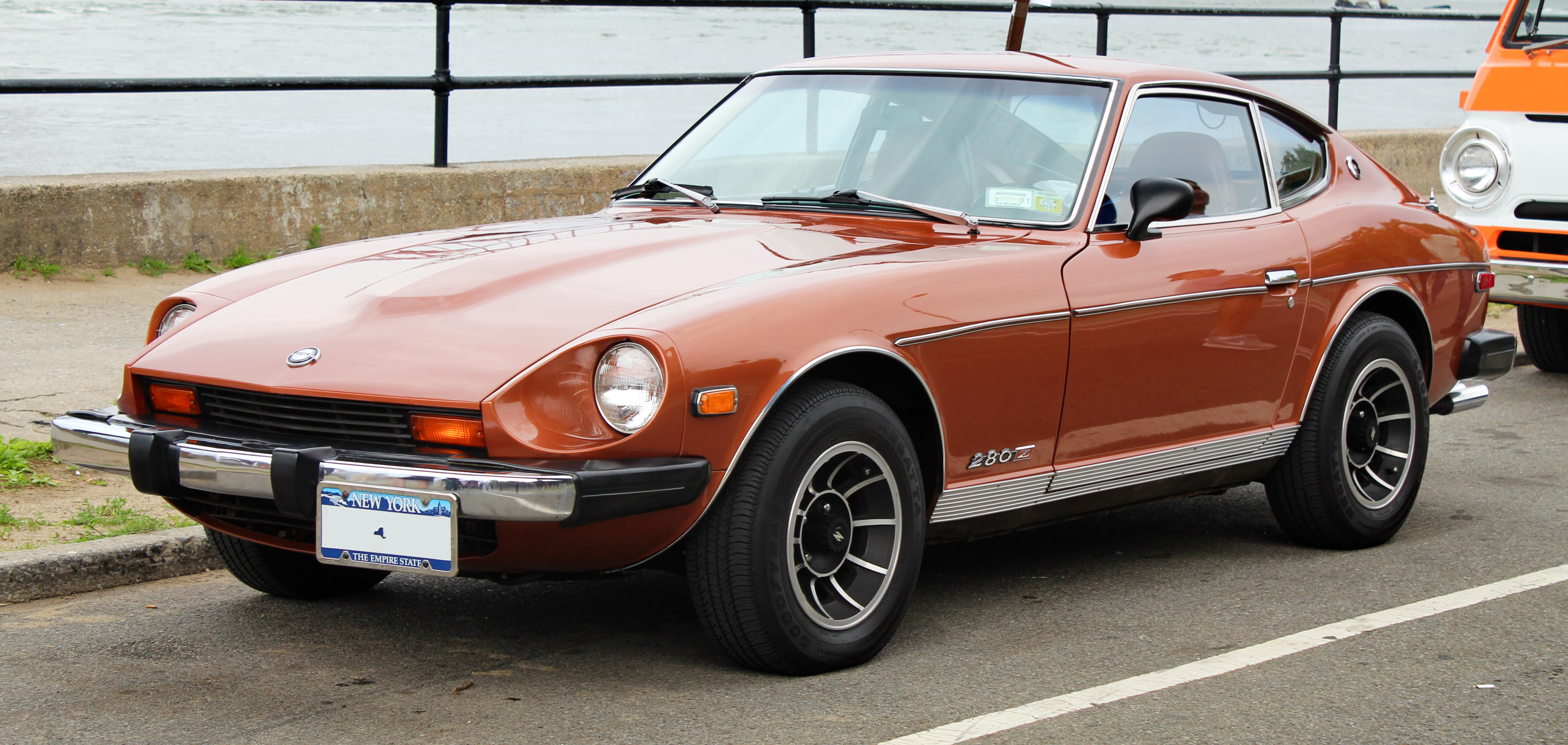 A 1976 Datsun 280Z photographed at Astoria Park, in Astoria, Queens, New York, USA